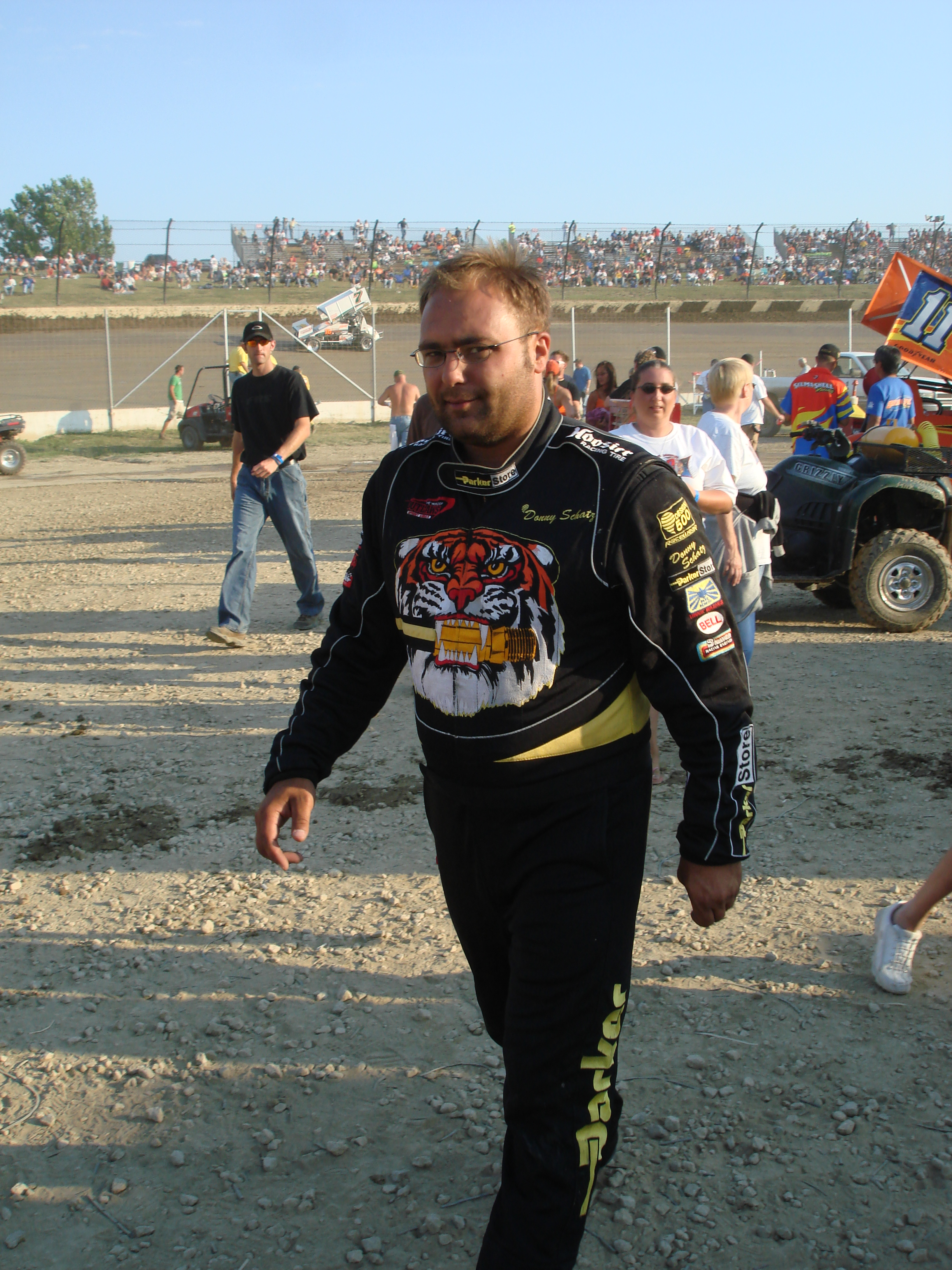 World of Outlaws sprint car driver Donny Schatz at the 2007 Kings Royal sprint car race2007 Kings Royal Champ - Donny Schatz